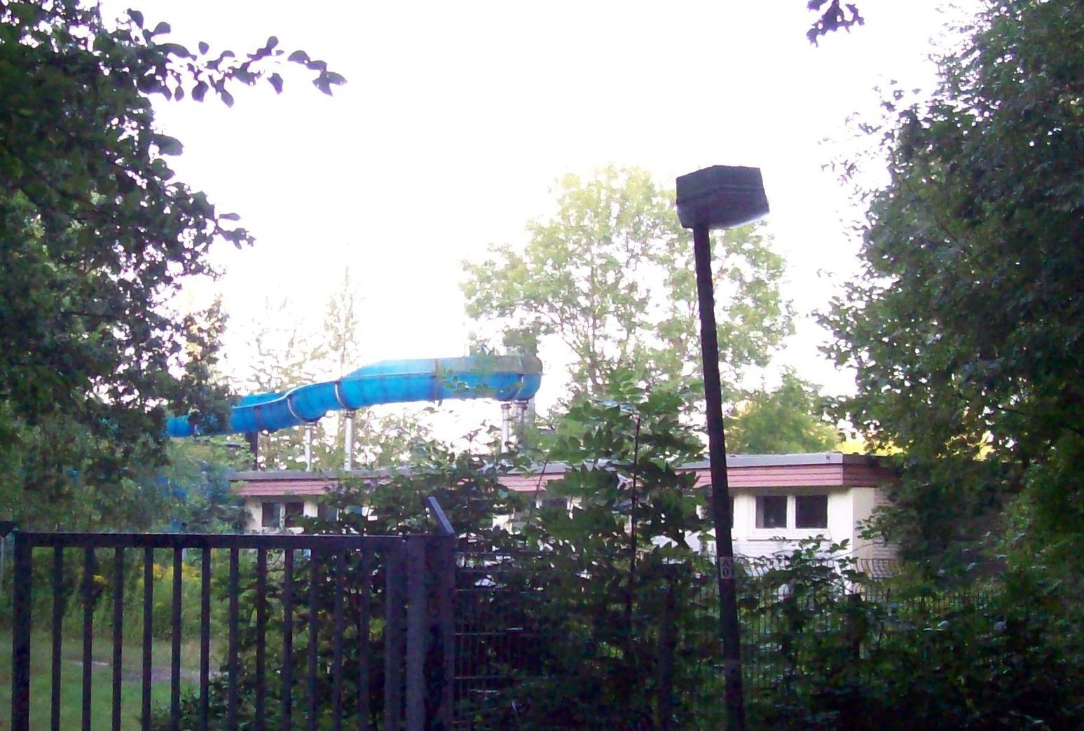 Former Waterpark "Tambourbad" in Offenbach, Germany.